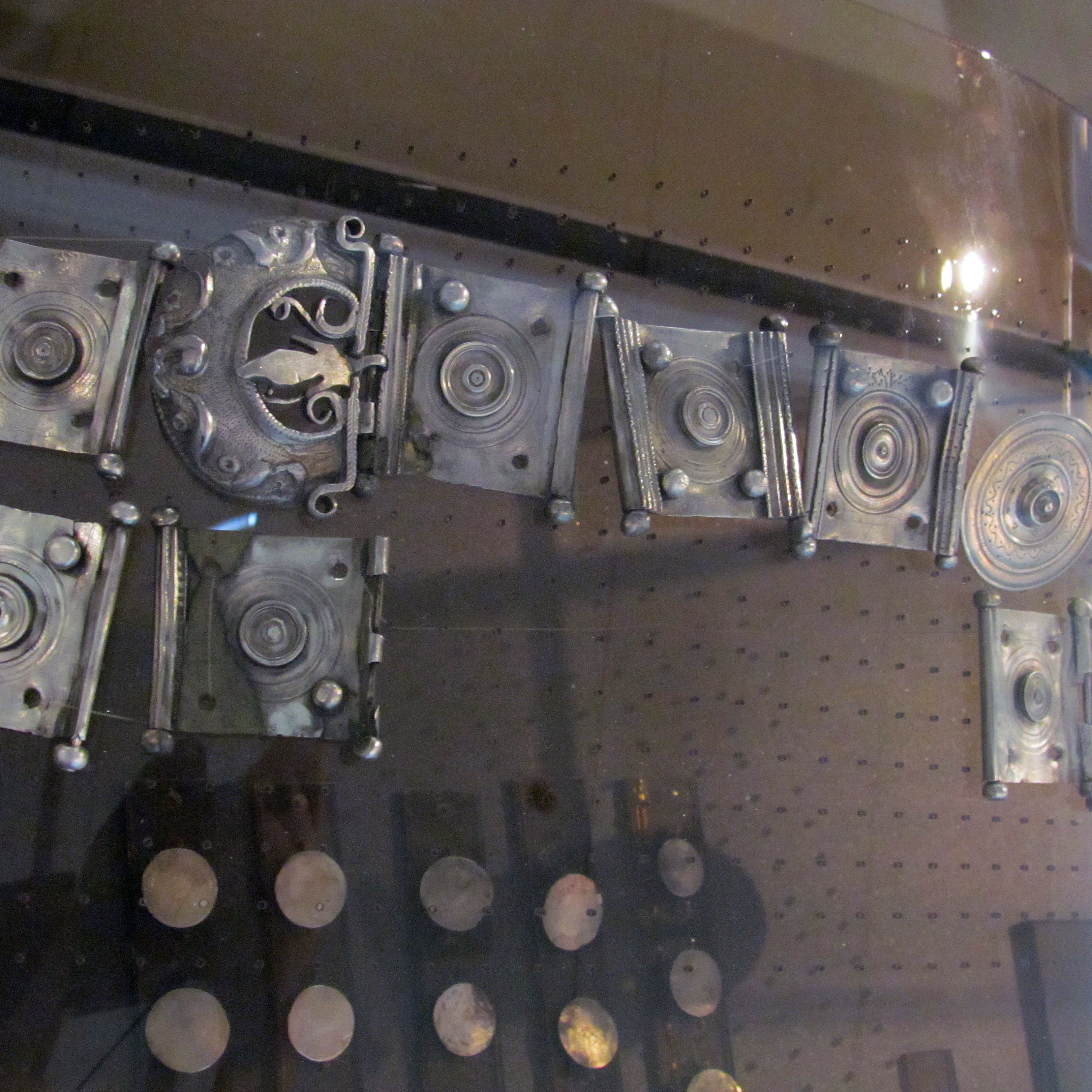 Cingulum militare1, Tekija, National museum of Serbia